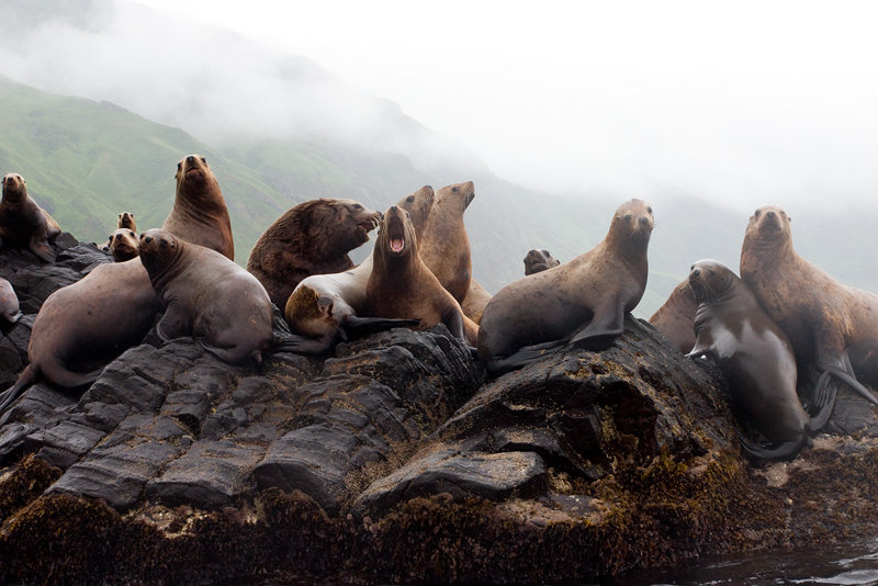 Steller sea lions on Moneron island